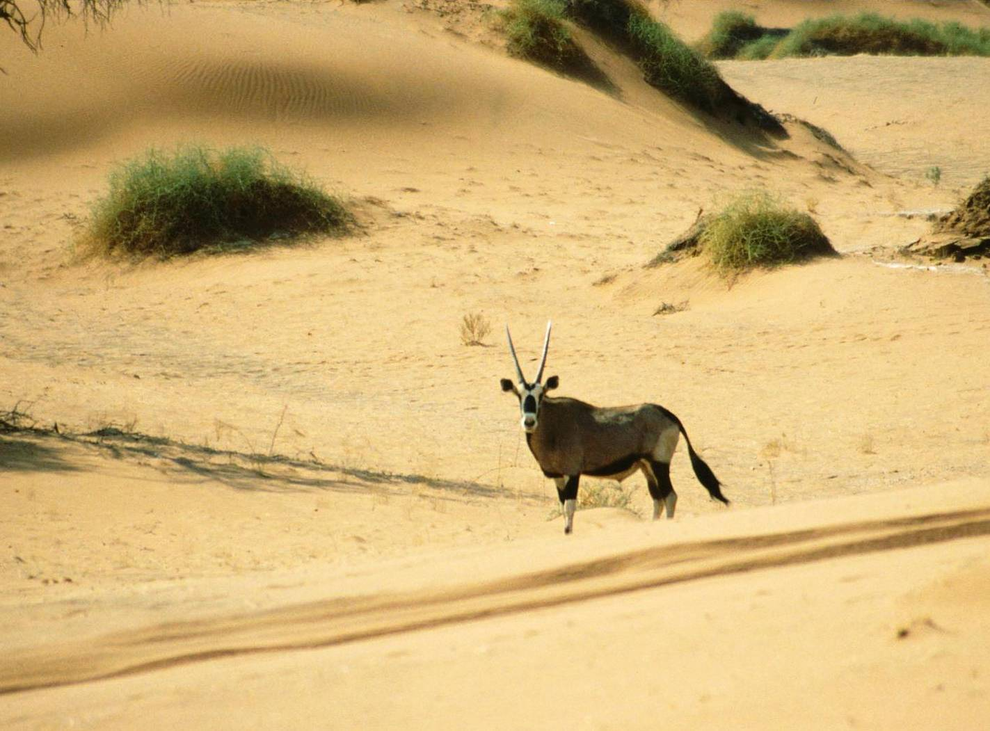 Gemsbok (Oryx gazella), Sossusvlei, Namib Desert, Namibia